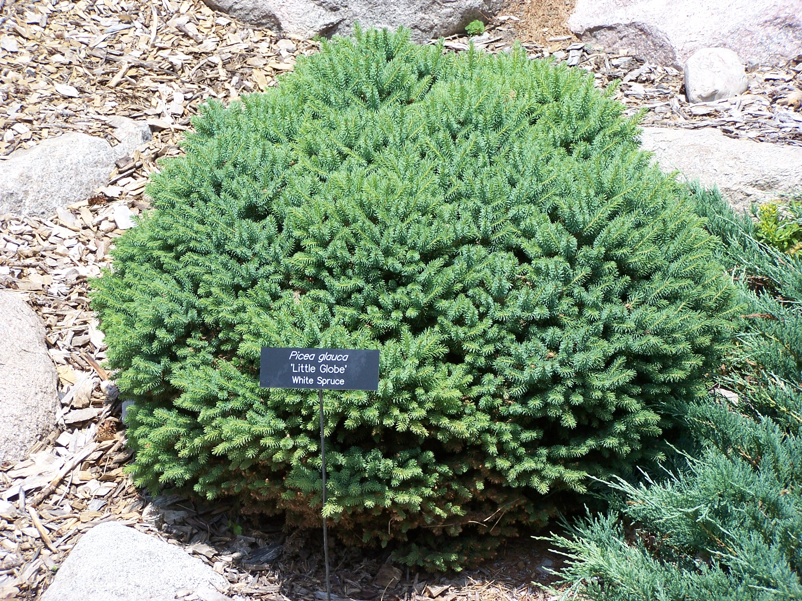 Picea glauca 'Little Globe' white spruce at Minnesota Landscape Arboretum